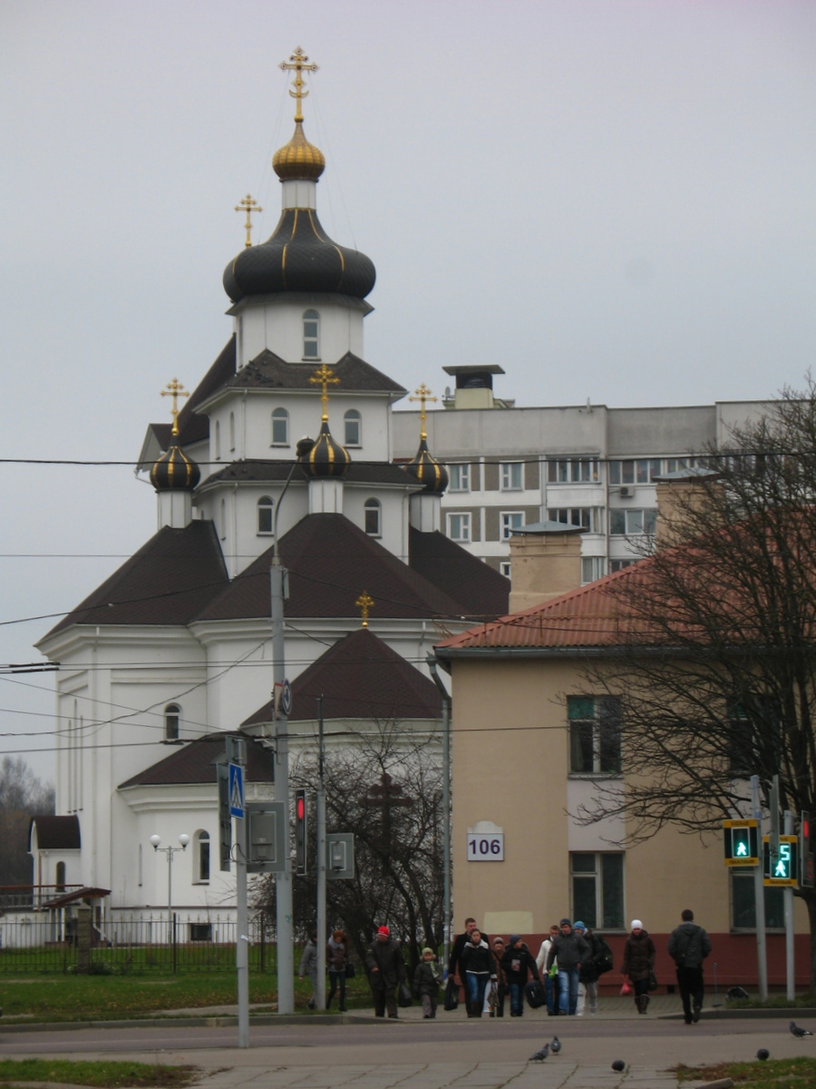 Church in Kurasoŭščyna